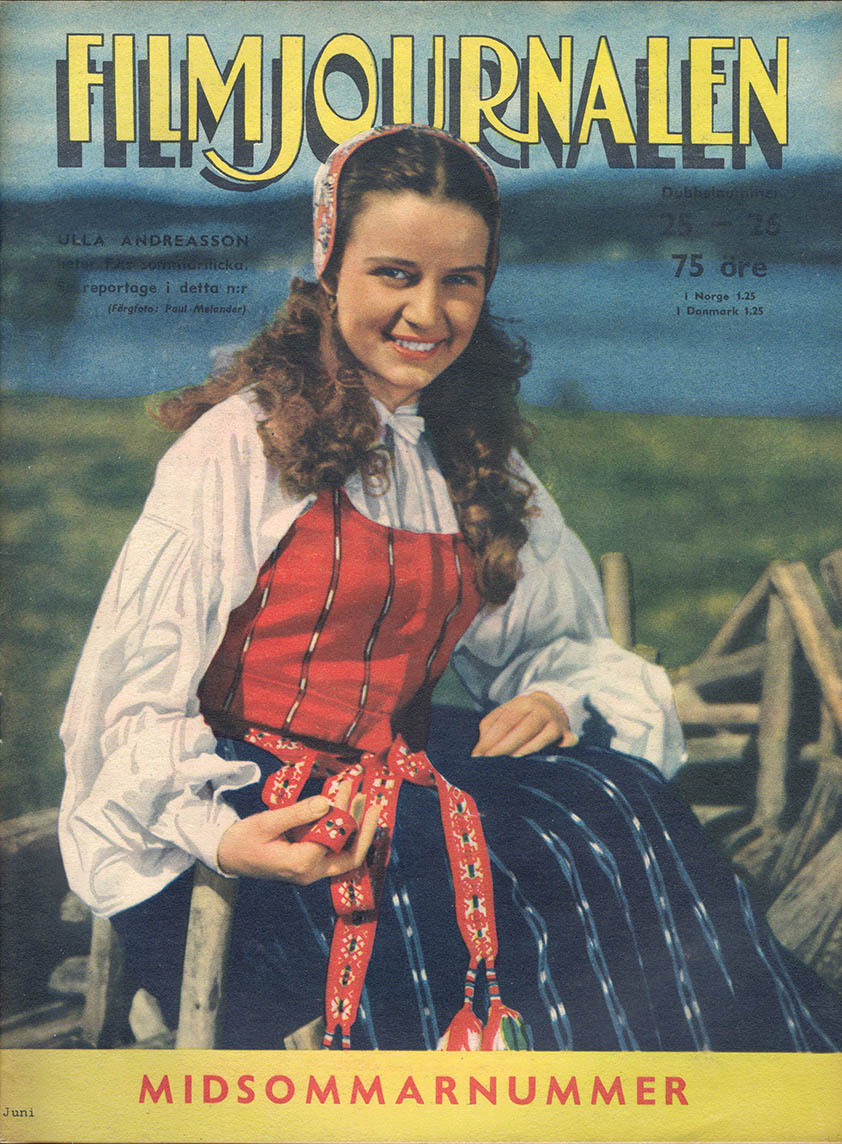 Swedish actress Ulla Andréasson (1927–2016) photographed during the production of "Lång-Lasse i Delsbo" 1949.